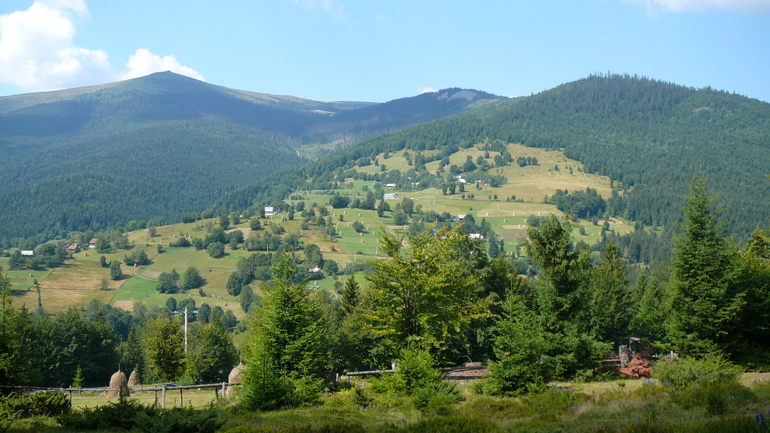 Arieseni in Bihor Mountains